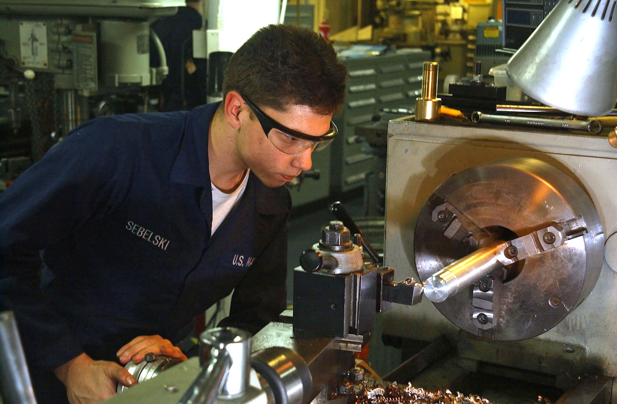 Original description: 040225-N-6125G-038 Atlantic Ocean (Feb. 25, 2004) – Fireman Justin Sebelski fabricates specialized parts on a lathe in the machine shop aboard USS Harry S. Truman (CVN 75). The nuclear powered aircraft carrier is currently undergoing carrier qualifications and flight deck certification off the Atlantic coast. U.S. Navy photo by Photographer's Mate Airman Eric S. Garst. (RELEASED)